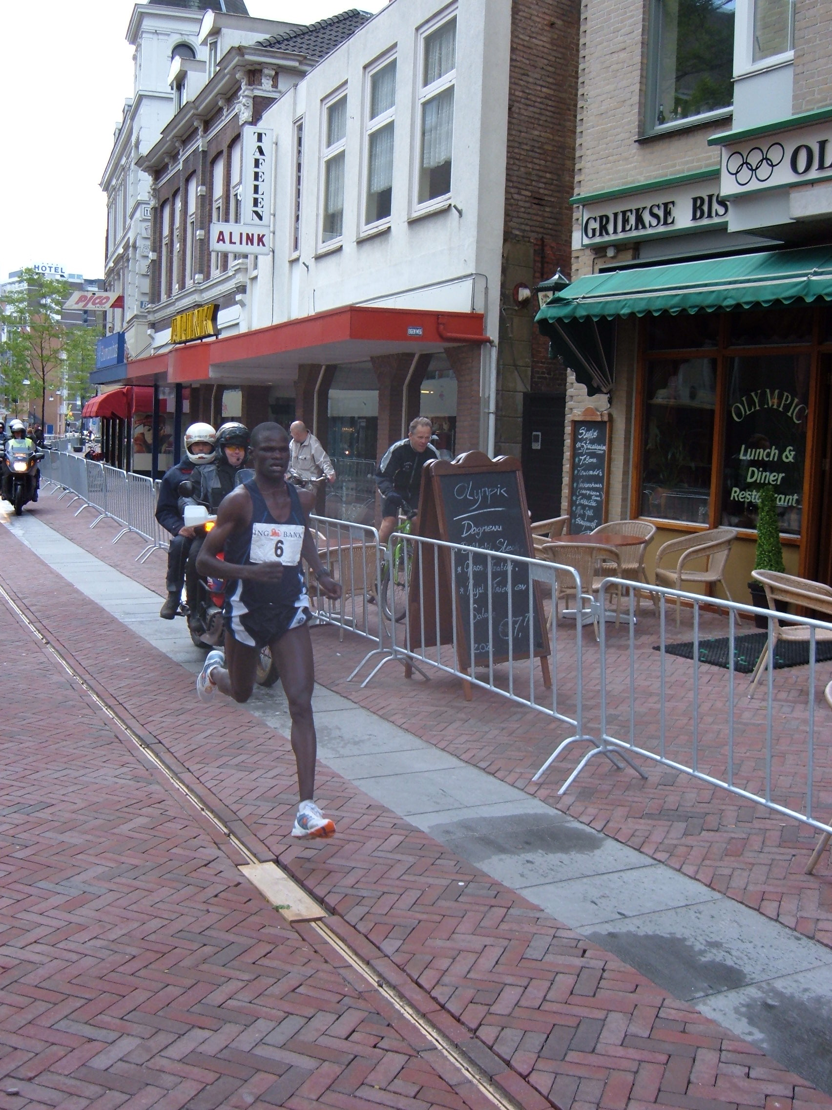 John Kelai winning the Marathon of Enschede, approx. 1000 m. to go, 2005 in 2:11:44. The picture is taken approx. 1000m before the finish.